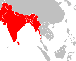 Southeast Asia with Pakistan, India, Nepal, Bhutan, Bangladesh, Sri Lanka, and Myanmar highlighted